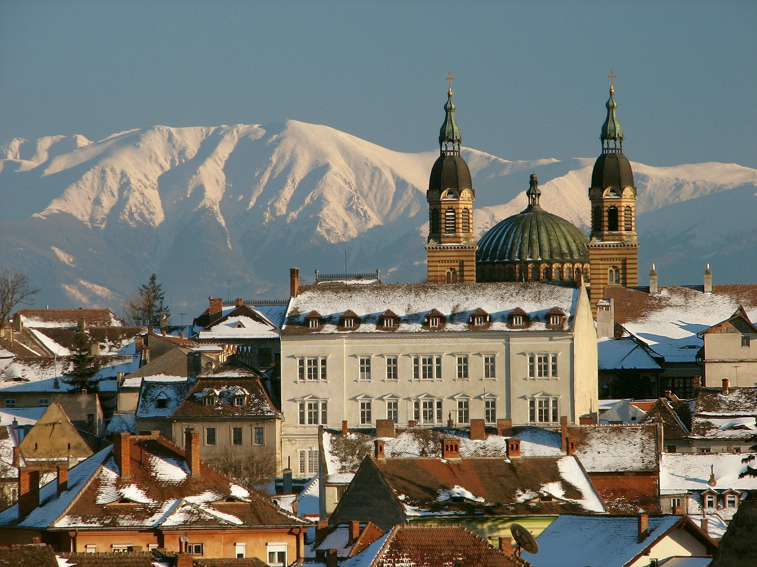 Panoramic of Sibiu, Romania, with the Orthodox Cathedral